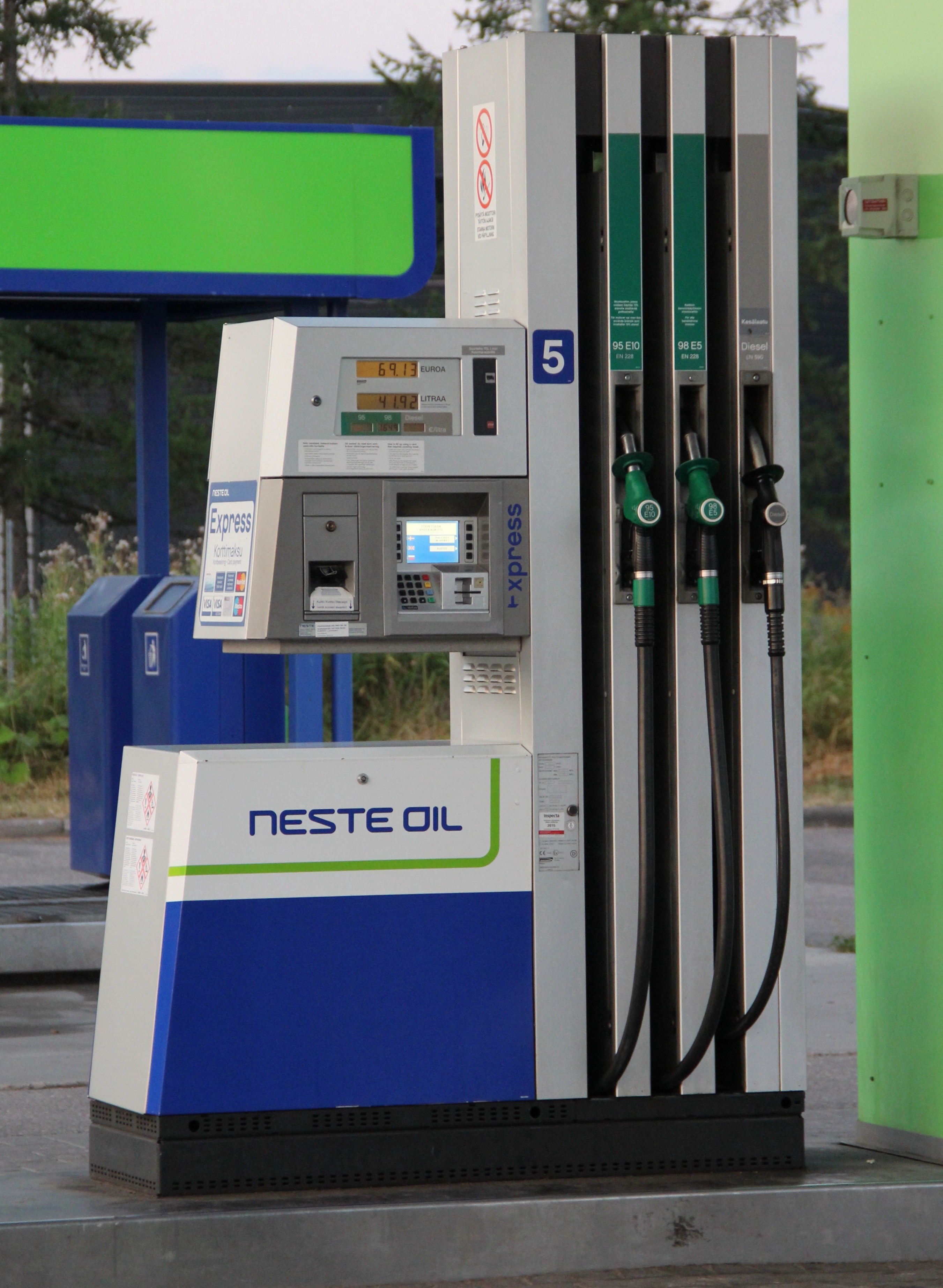 Neste Express petrol pump, Suutarila, Helsinki, Finland.